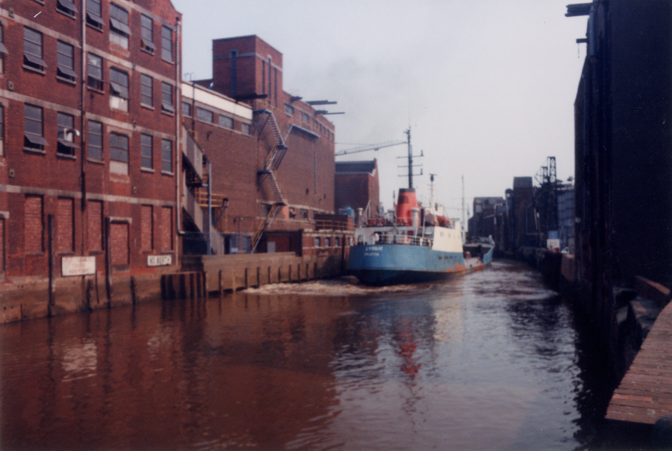 A freighter heads downstream on the River Hull, Humberside in 1990. Taken from Scott Street Bridge looking towards North Bridge.